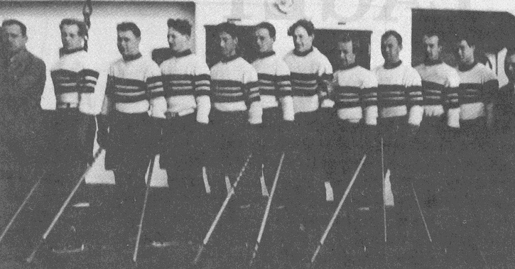 Norway's first national hockey team on their way to Great Britain to participate in the 1937 Ice Hockey World Championships. From the left: Rolf Gjertsen (president in the Ice Hockey Association of Norway), Per Dahl, Bjarne By, Eugen Skalleberg, Gustav Edvardsen, Knut Bøgh, Ernst Henriksen, Sverre Fjeldstad, Johan Narvestad, Olav Brodahl, Hans Møllegård and Ivar Luytkis. Player Karl Agheim is not in the picture due to sea sickness.